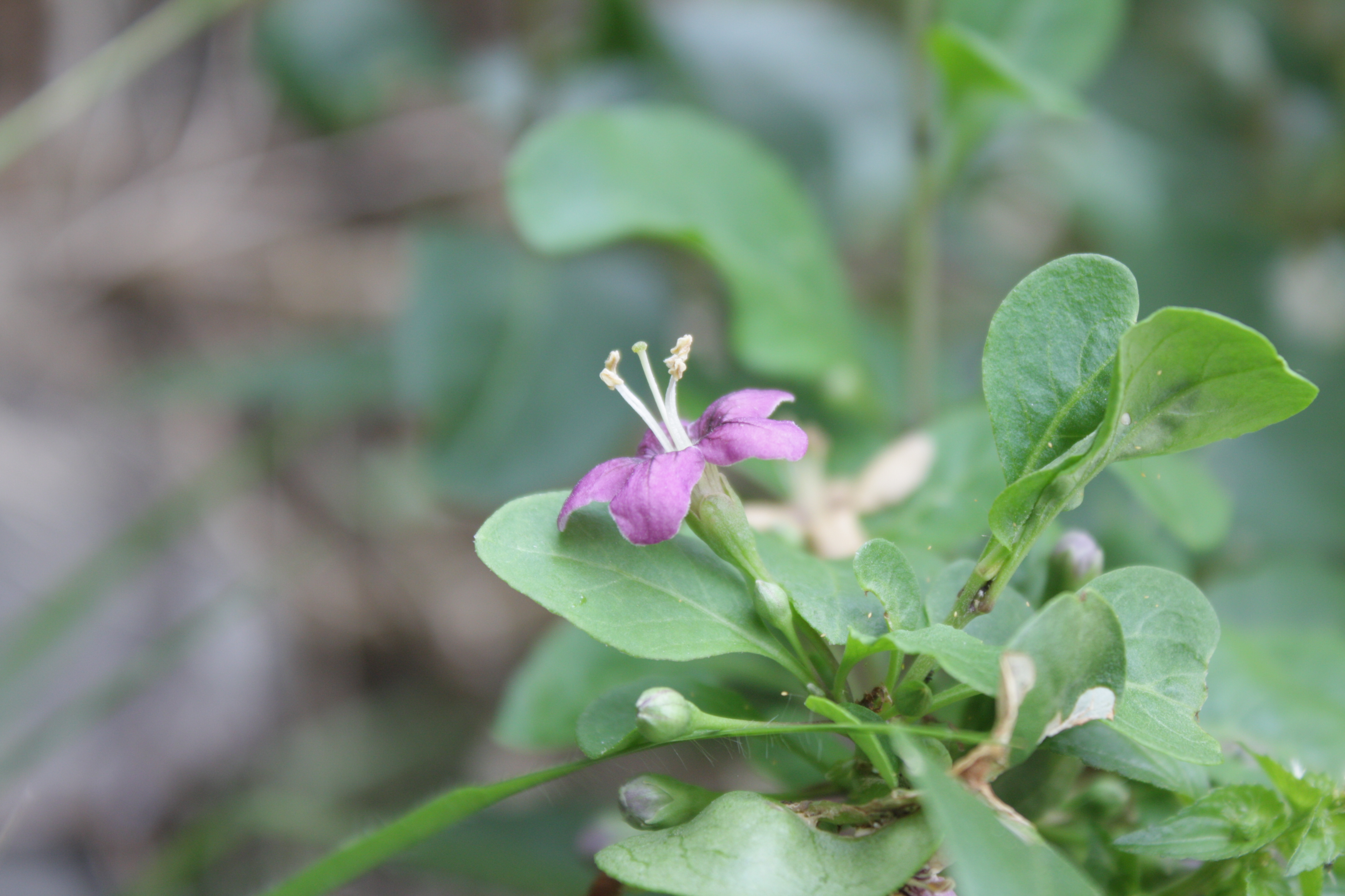 Lycium chinense